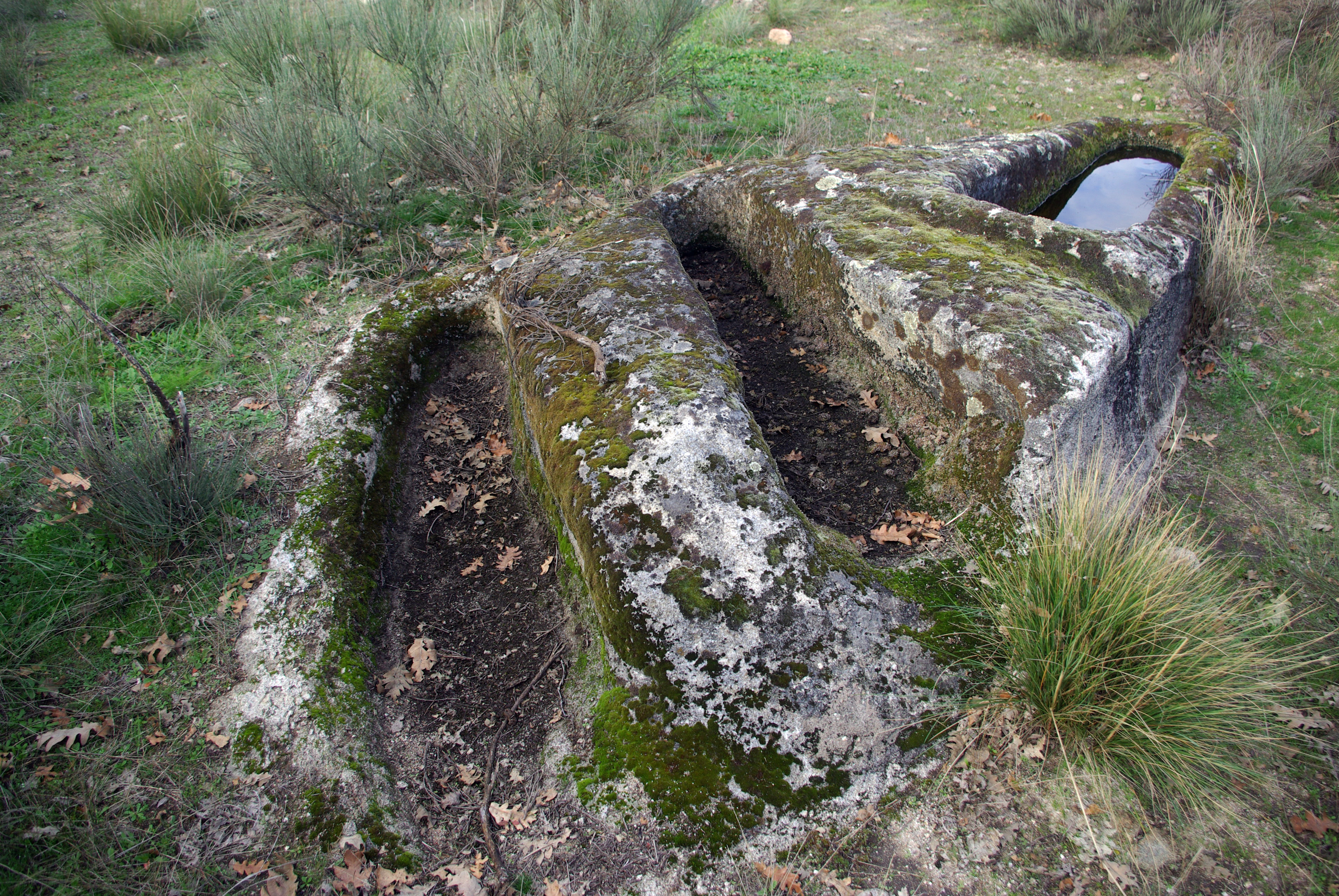 Necropolis in Malpartida, near Almeida (Guarda, Portugal).